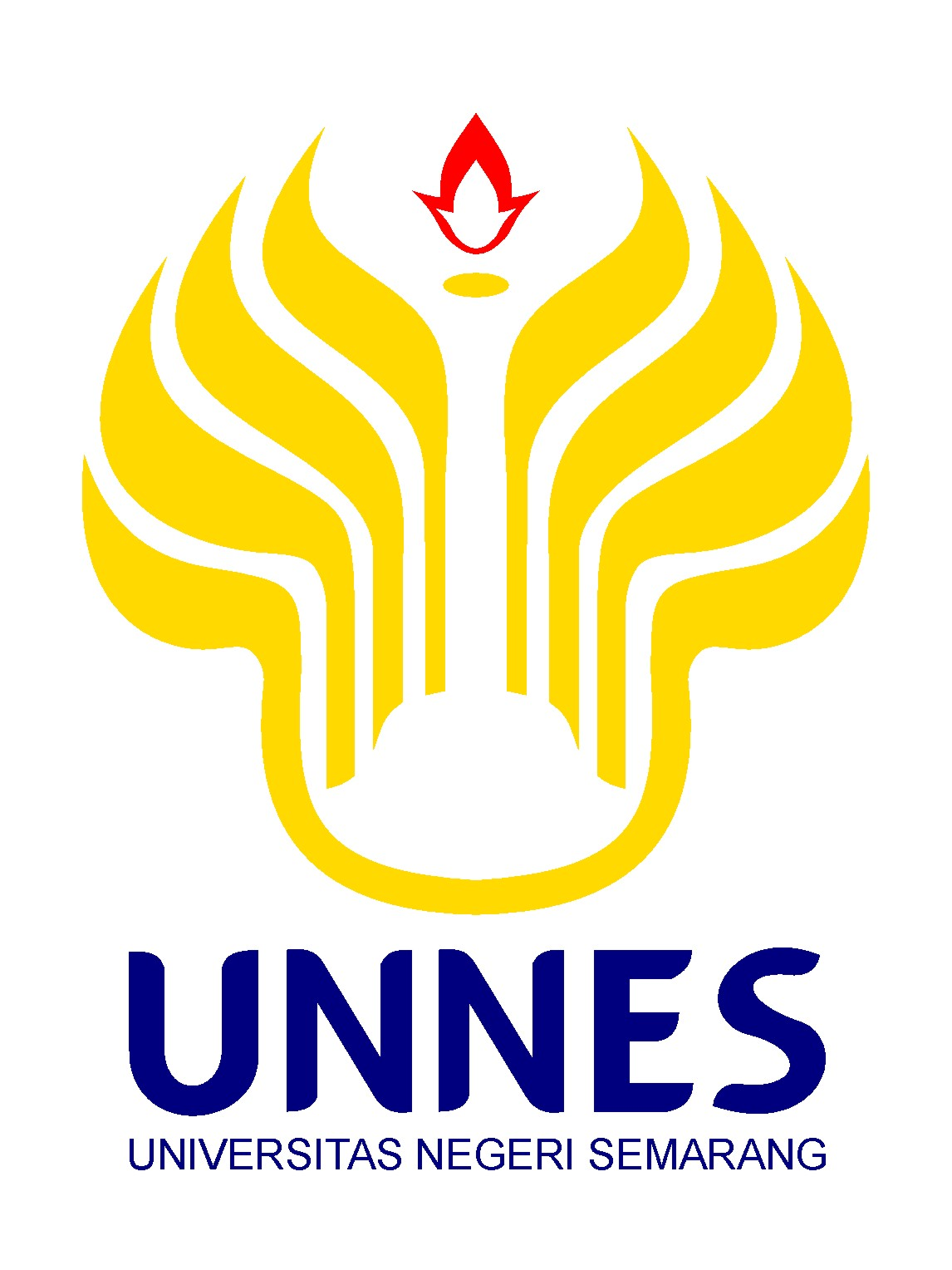 UNNES Logo